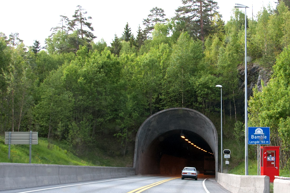 Bambletunnelen road tunnel, E18, Bamble, Telemark, Norway